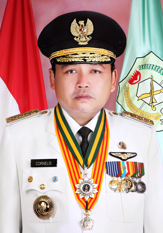 Official photograph of Cornelis, Governor of West Kalimantan